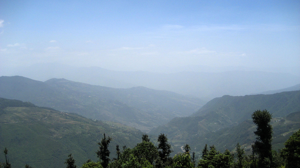 Dolakha District. Mountain Range as seen from Khati Dhunga, Dolakha (near by Charikot, Dolakha); 120 KM east from Capital city Kathmandu, Nepal.